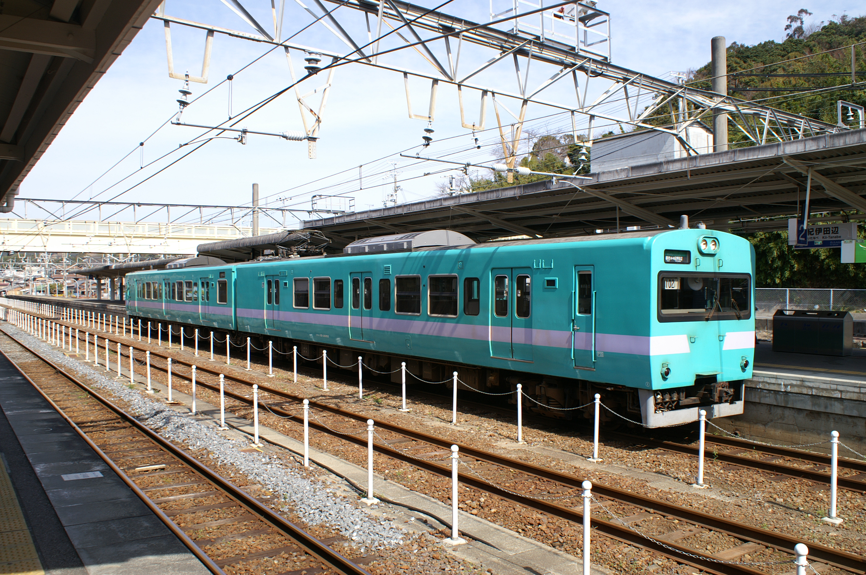 JR West 113-2000 series EMU at Kii-Tanabe Station